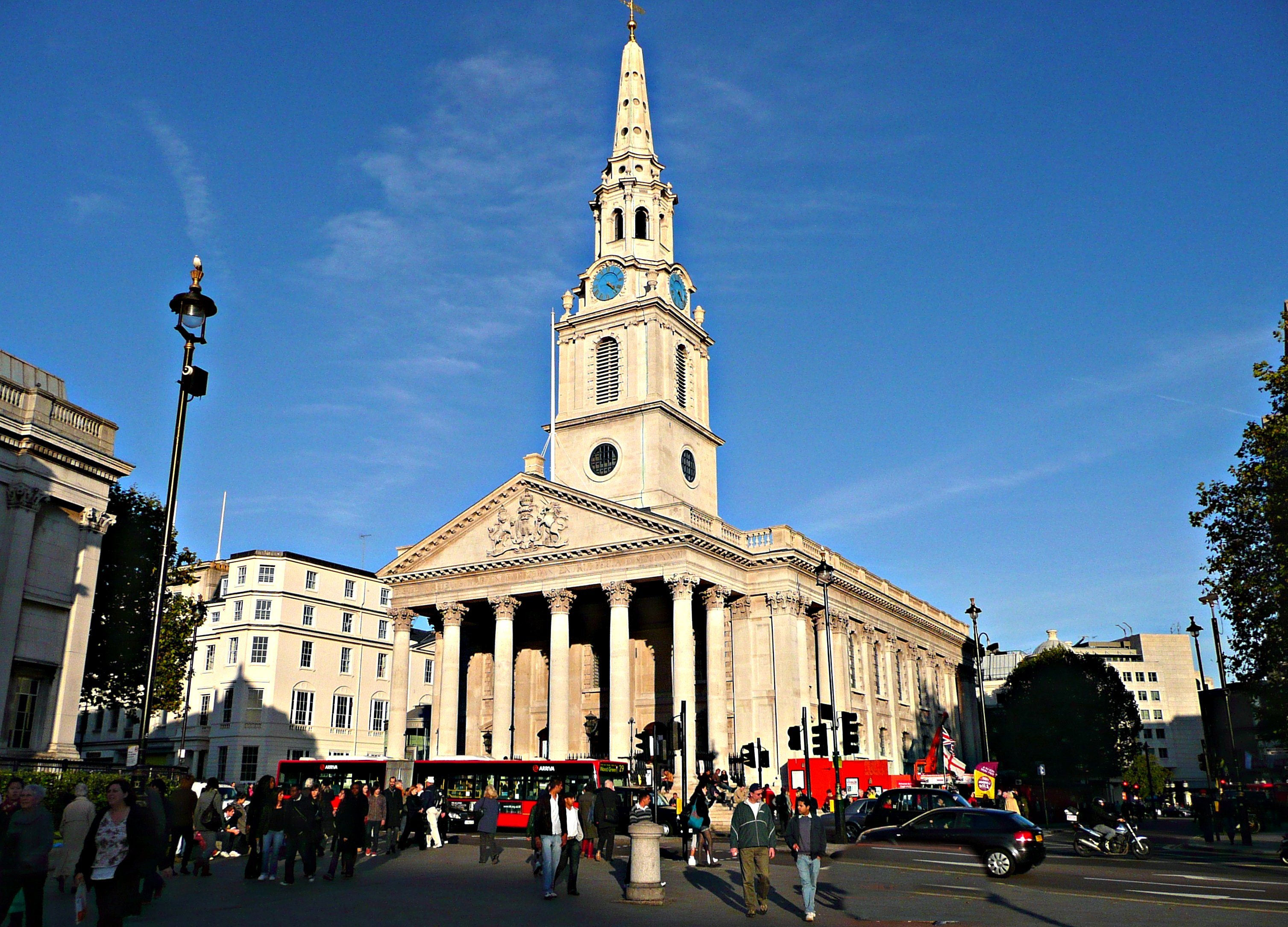 St Martin-in-the-Fields church